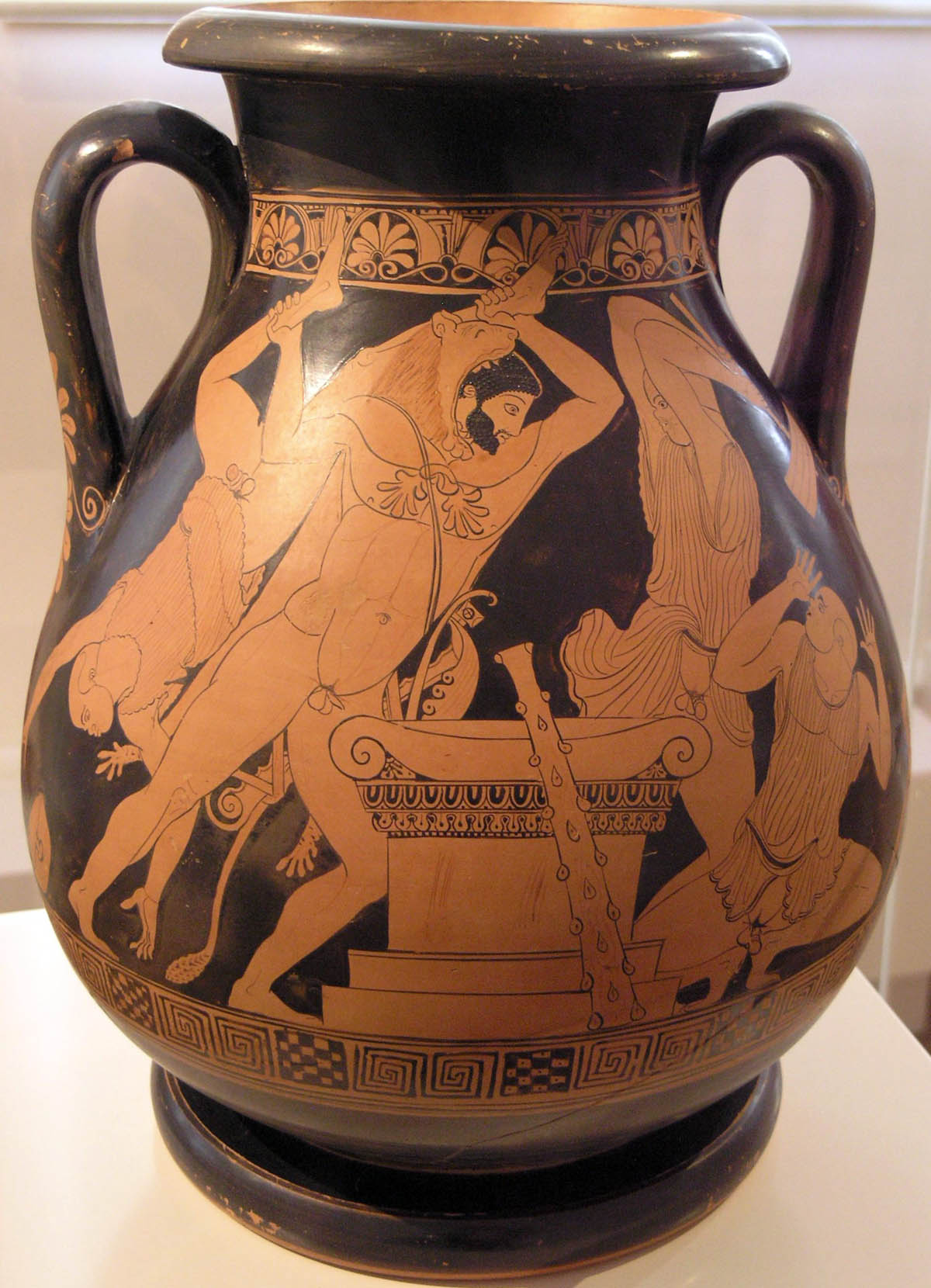 Herakles fighting Busiris. Attic red-figure pelike (wine-holding vessel)